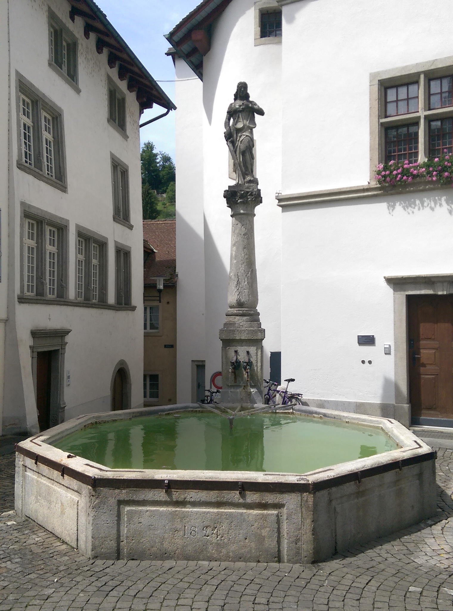 Der Rathausbrunnen in Brugg